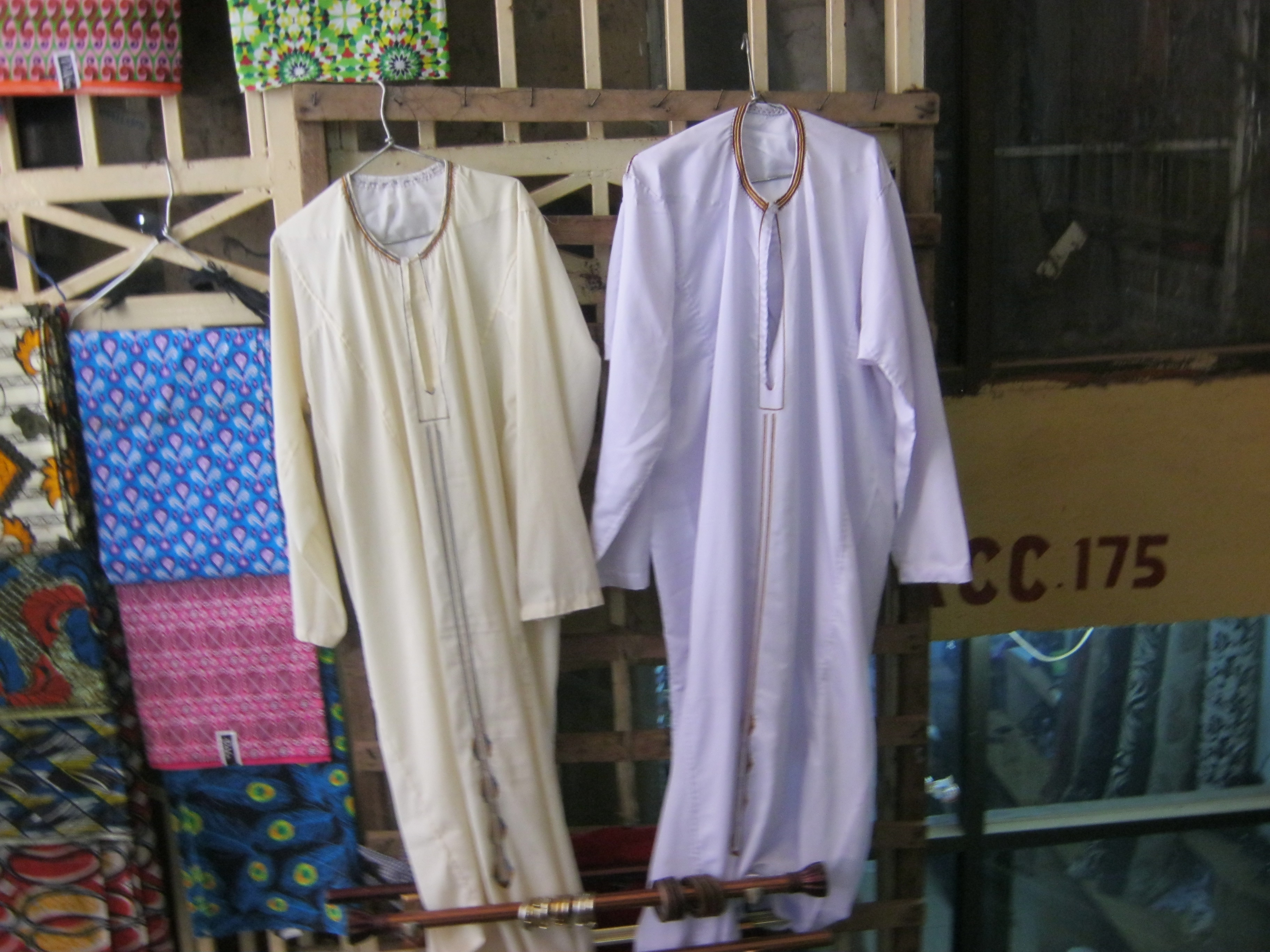 kanzu on sale This is an image of Cultural Fashion or Adornment from Uganda